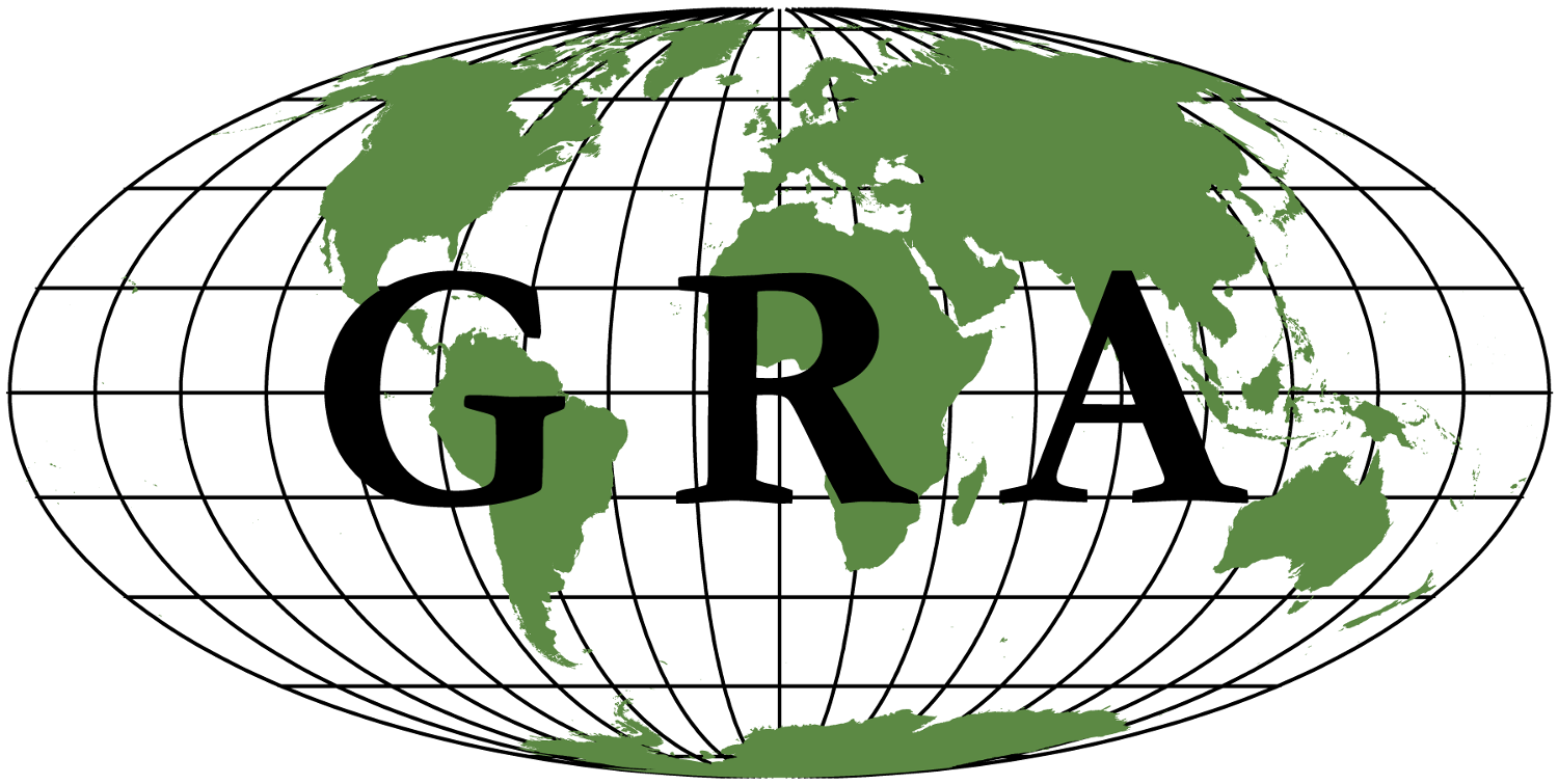 Logo of Geoarcheology Research Associates.